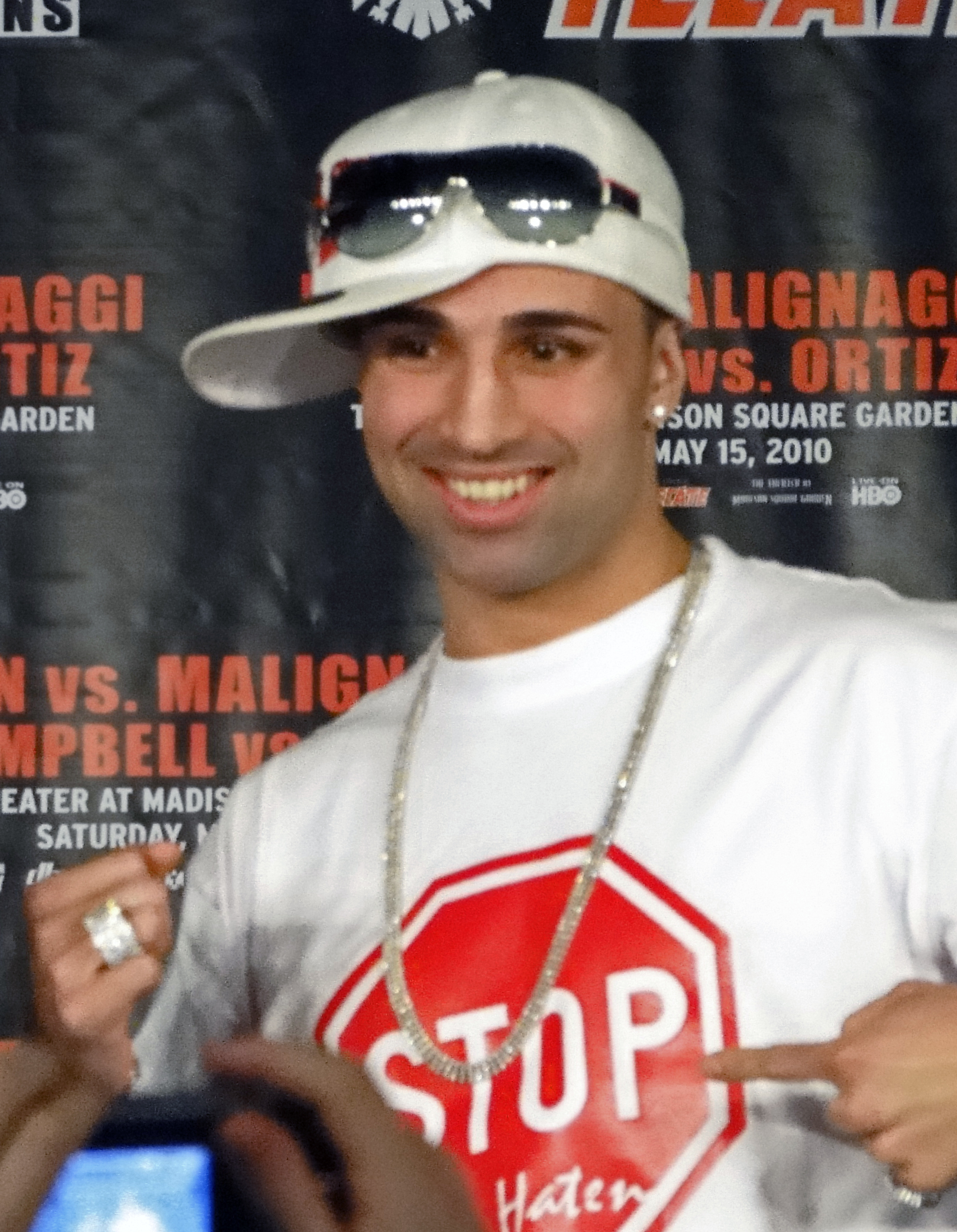 Paul Malignaggi on March 17, 2010